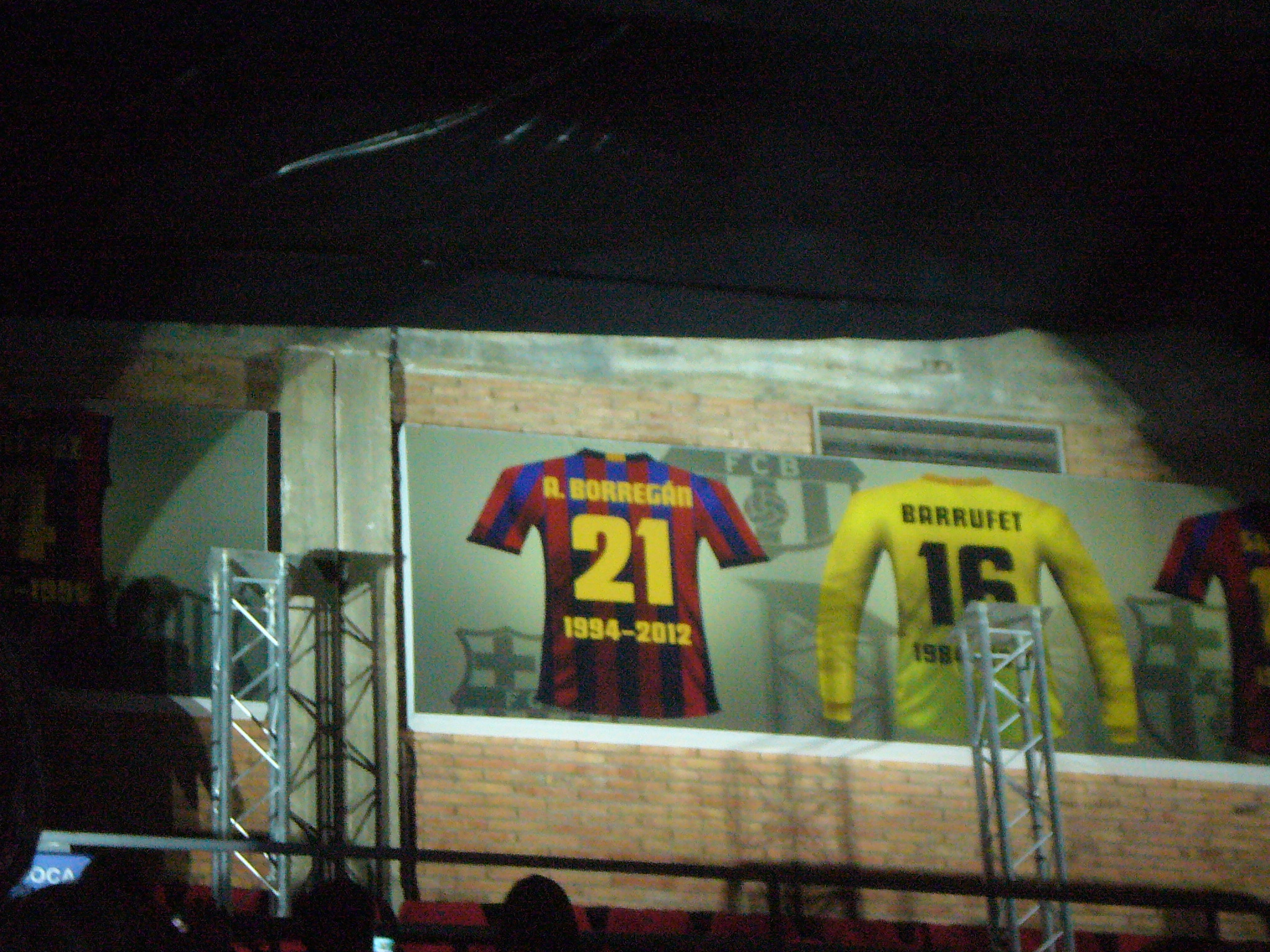 Tribute to Beto Borregán. May 5, 2013